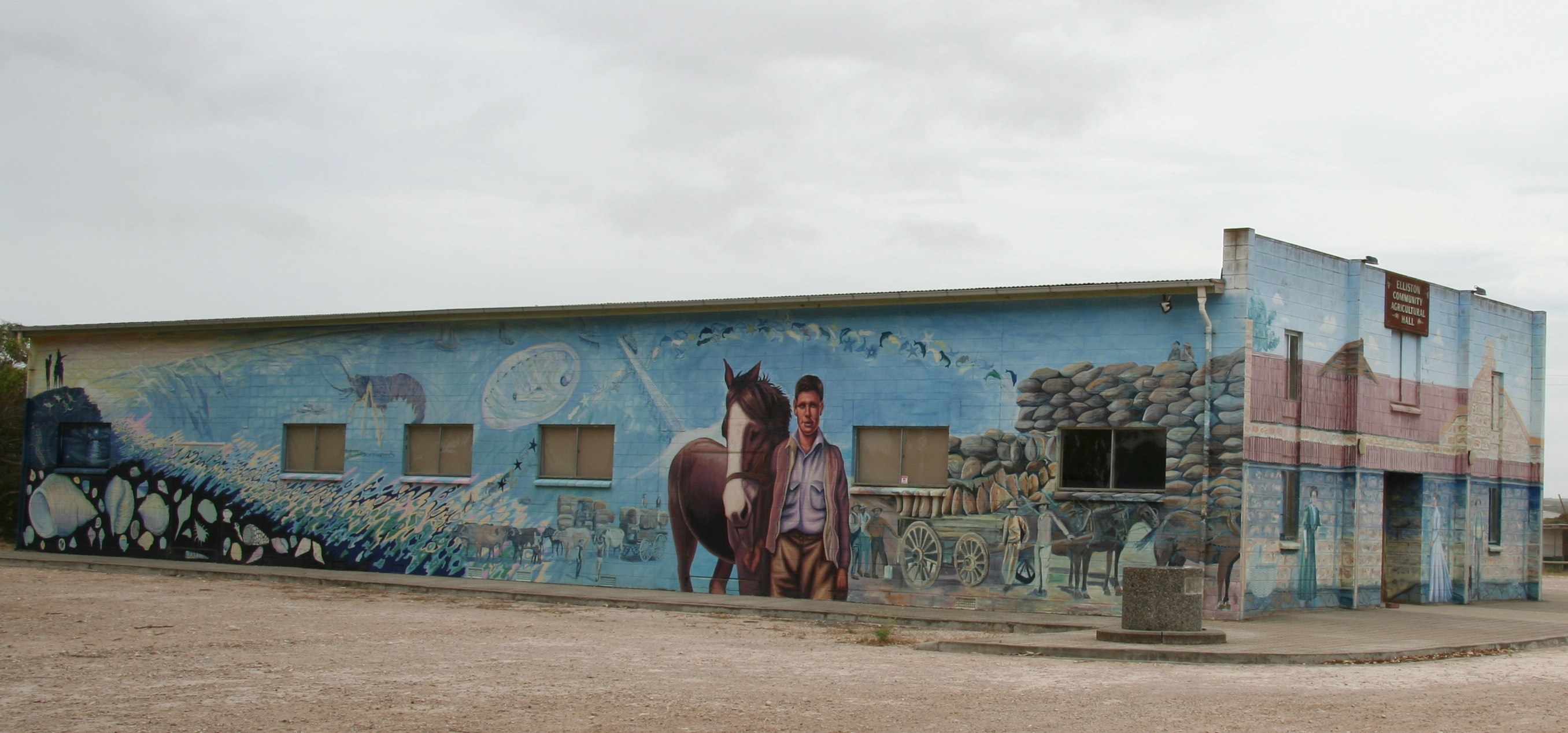 Photograph taken by Brian Dandy on 22/1/06